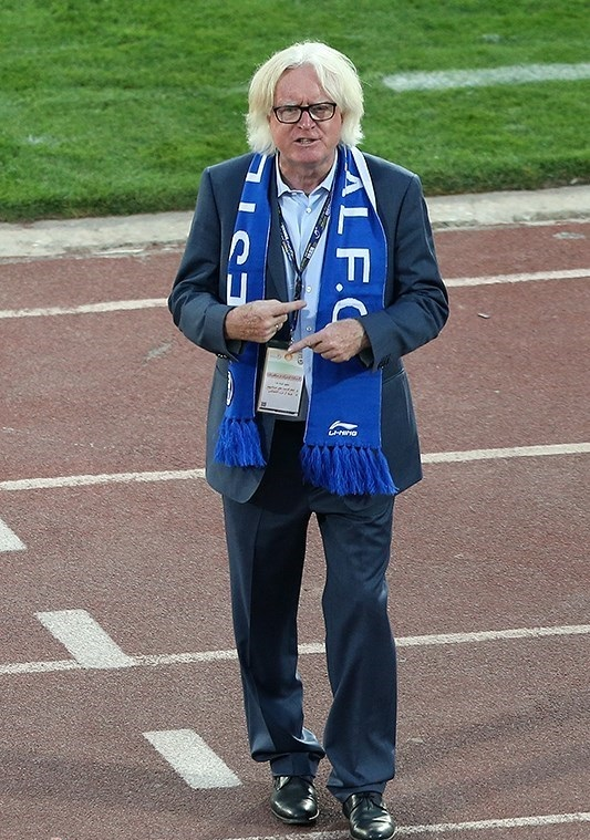 Winfried Schäfer